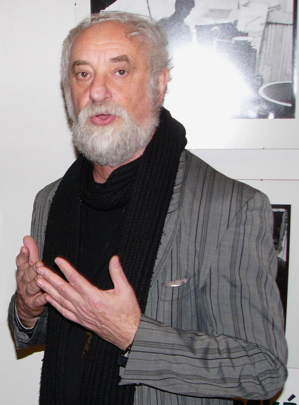 Czech photographer Jindřich Štreit.